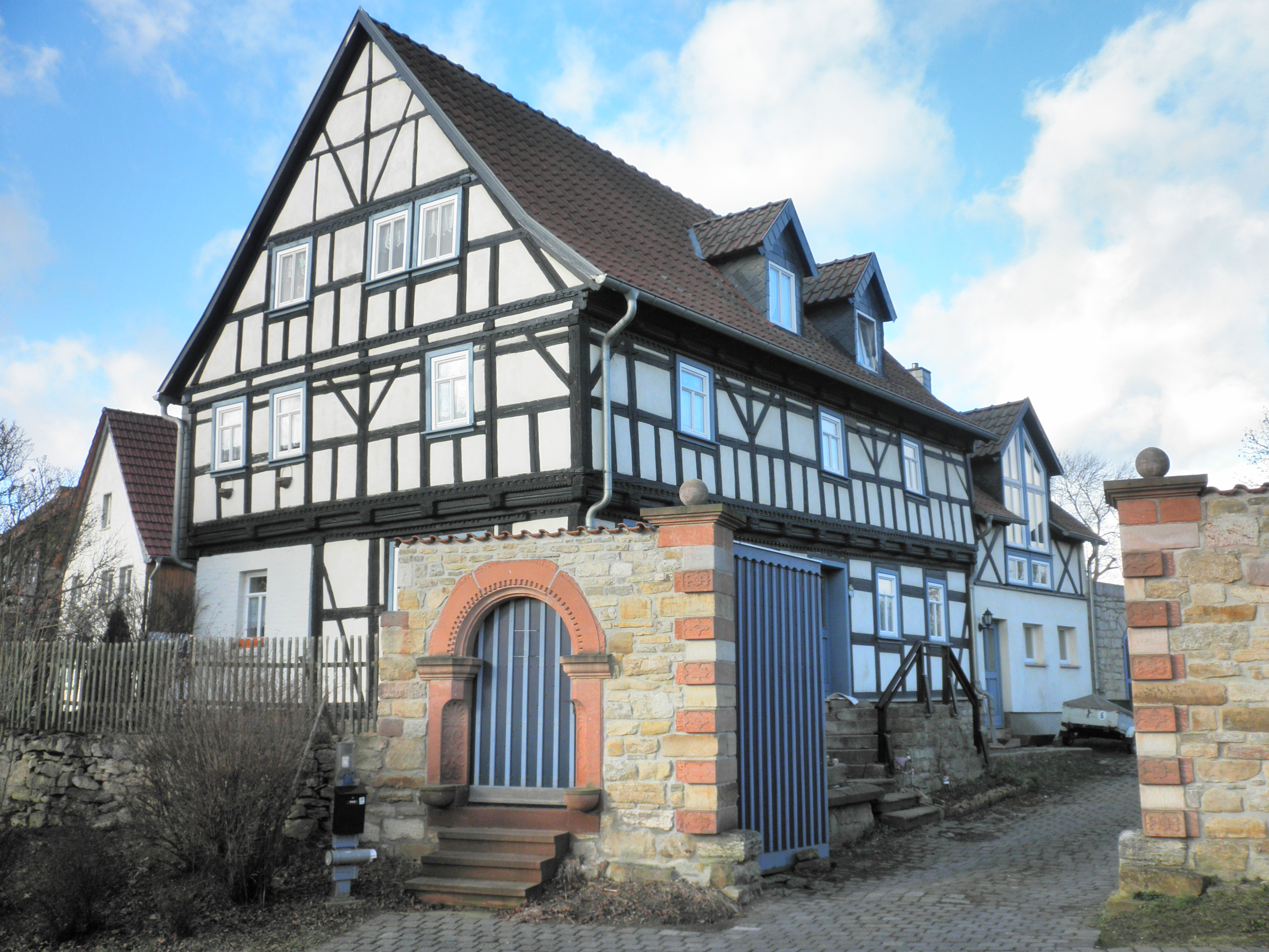 Halftimbered House in Mehrstedt (Schlotheim) in Thuringia